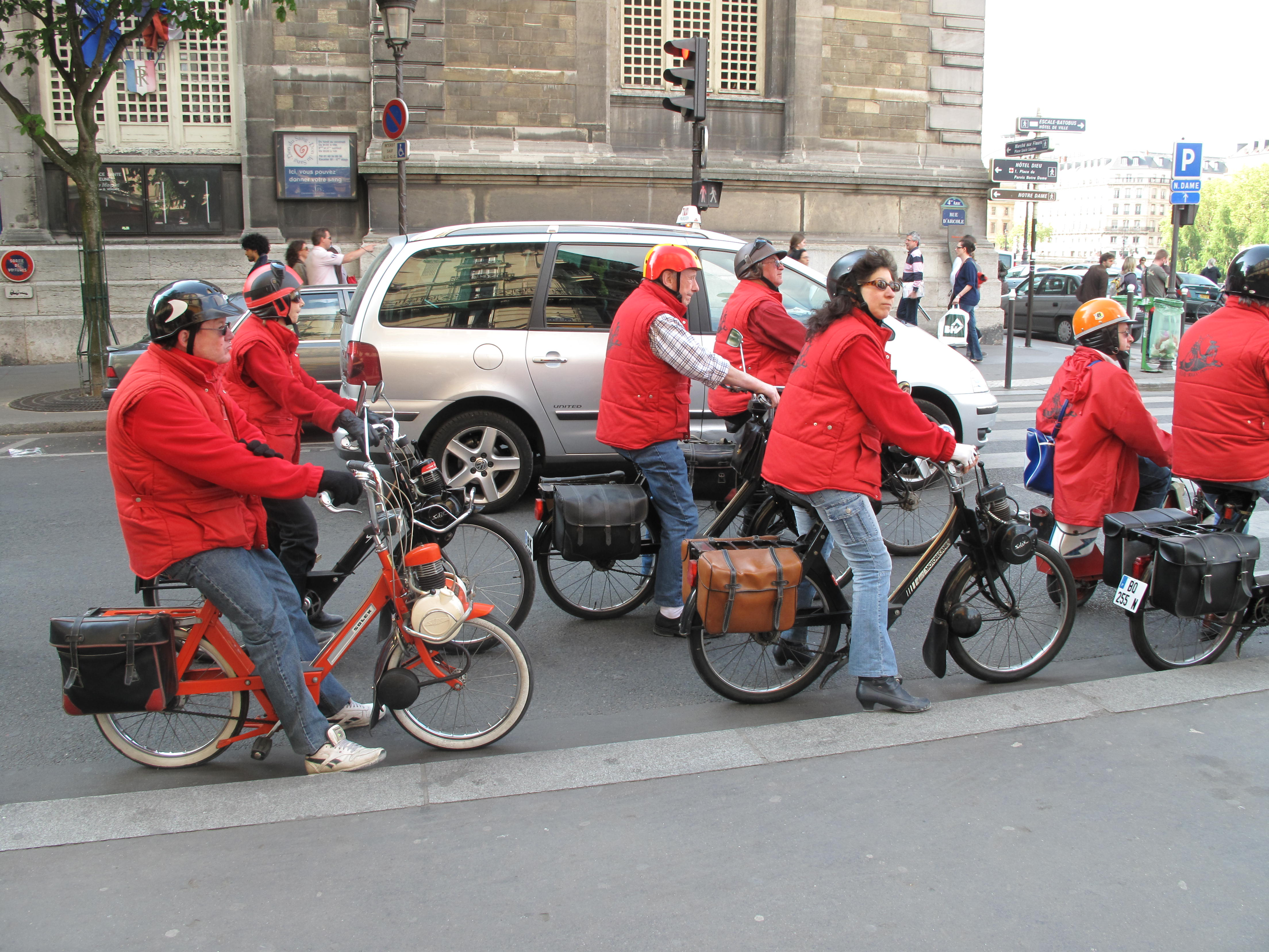 Groupe of Velosolexes riders in Paris.